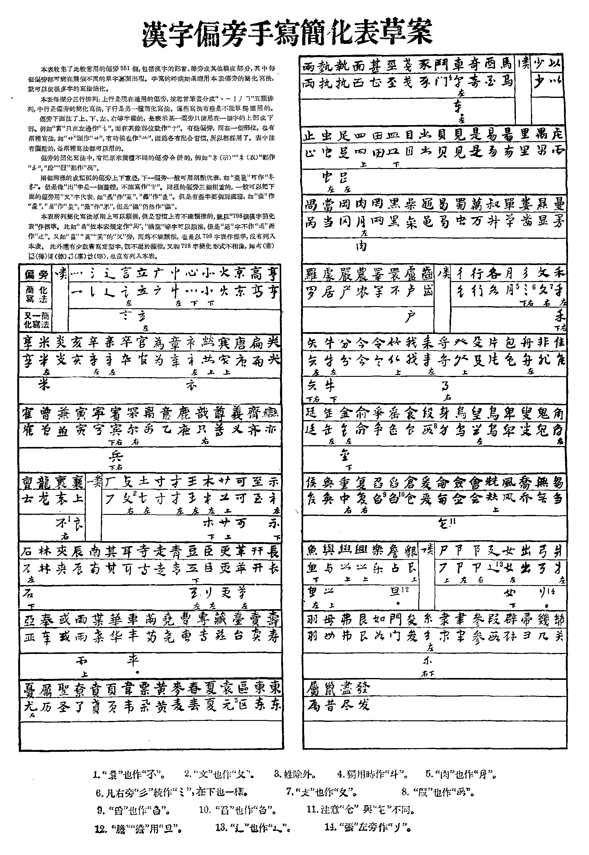 List of simplification of Chinese character components in handwriting, which is the third list in the 1955 draft of Chinese Character Simplification Scheme.